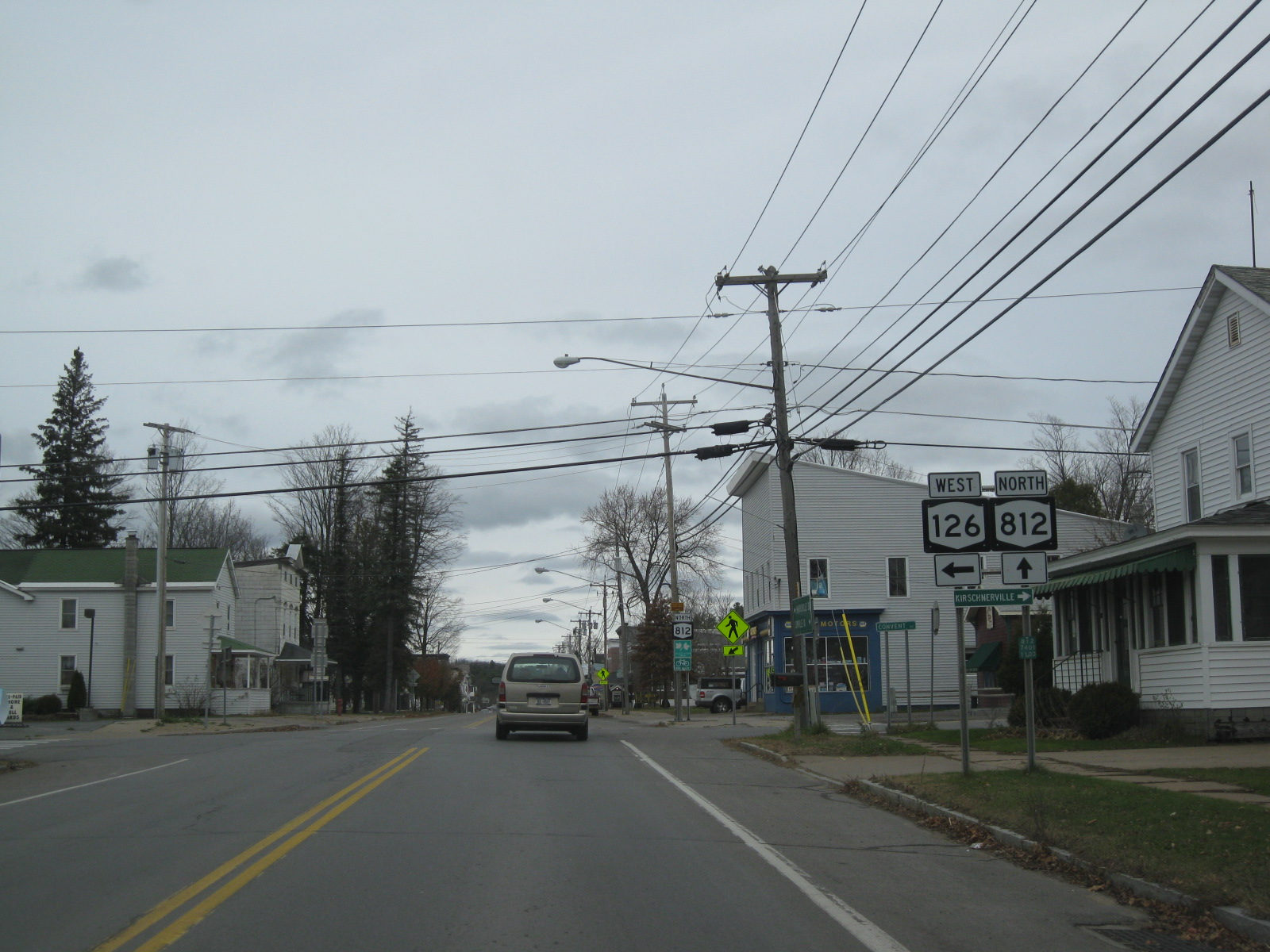 Junction of New York State Route 812 and New York State Route 126 in Croghan as seen from NY 812 northbound. Until the late 1970s, New York State Route 26A followed modern NY 812 to this junction, where it turned to follow what is now NY 126.